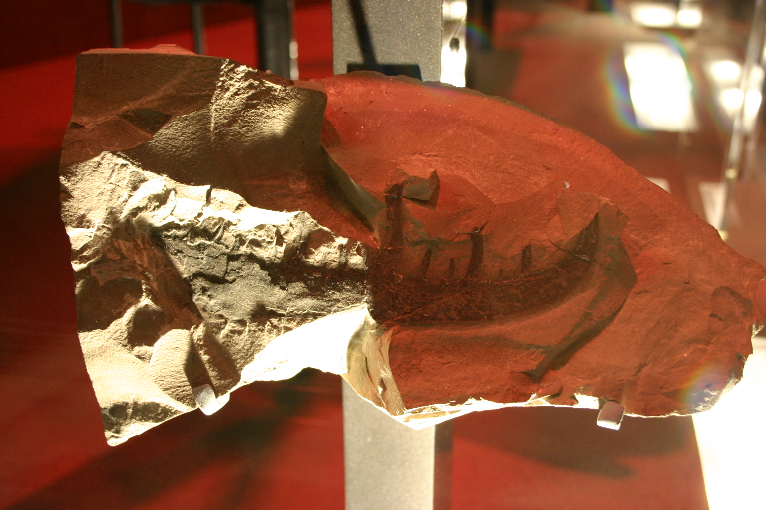 Visit my blog at